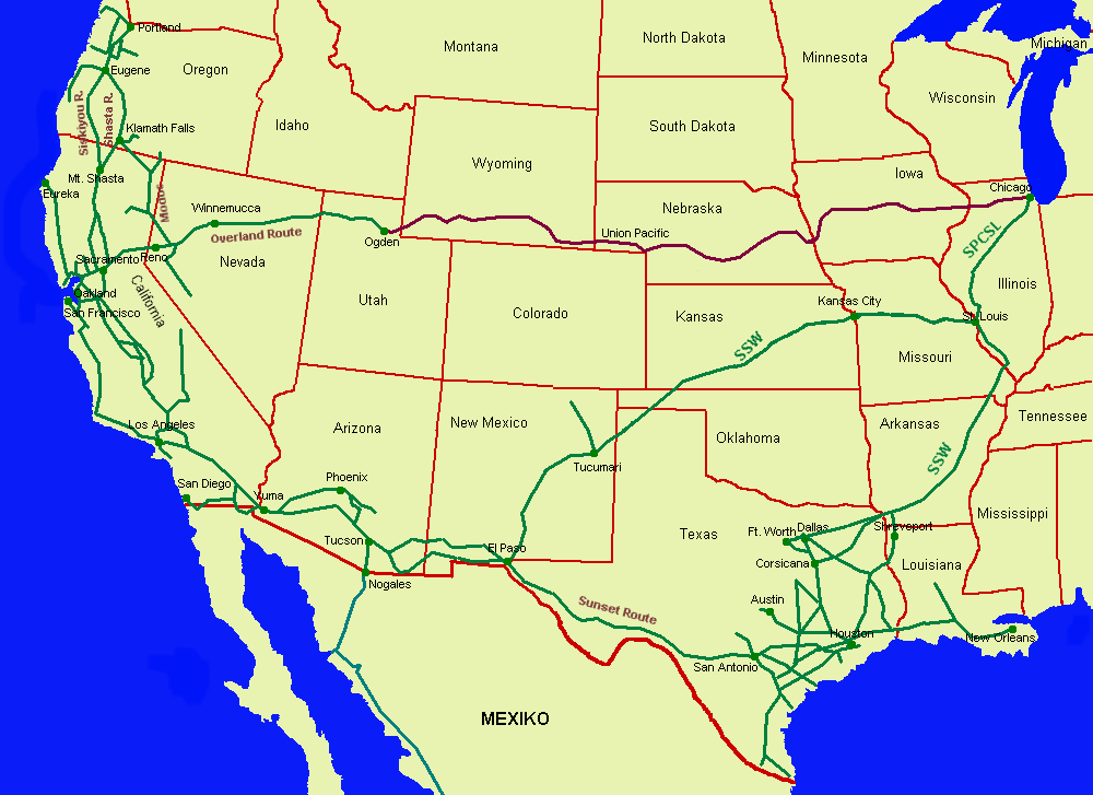 Map of the Southern Pacific Transportation Company before the DRGW-Merger